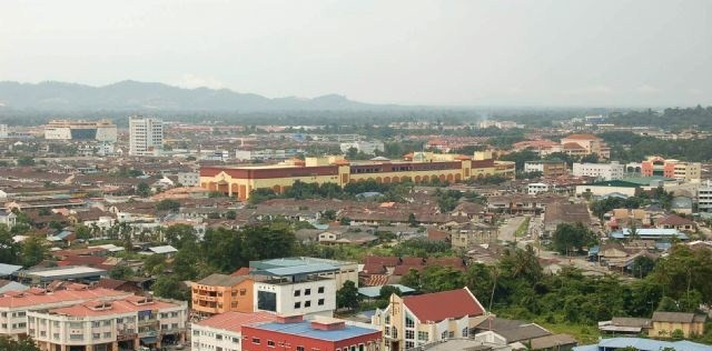 Batu Pahat view